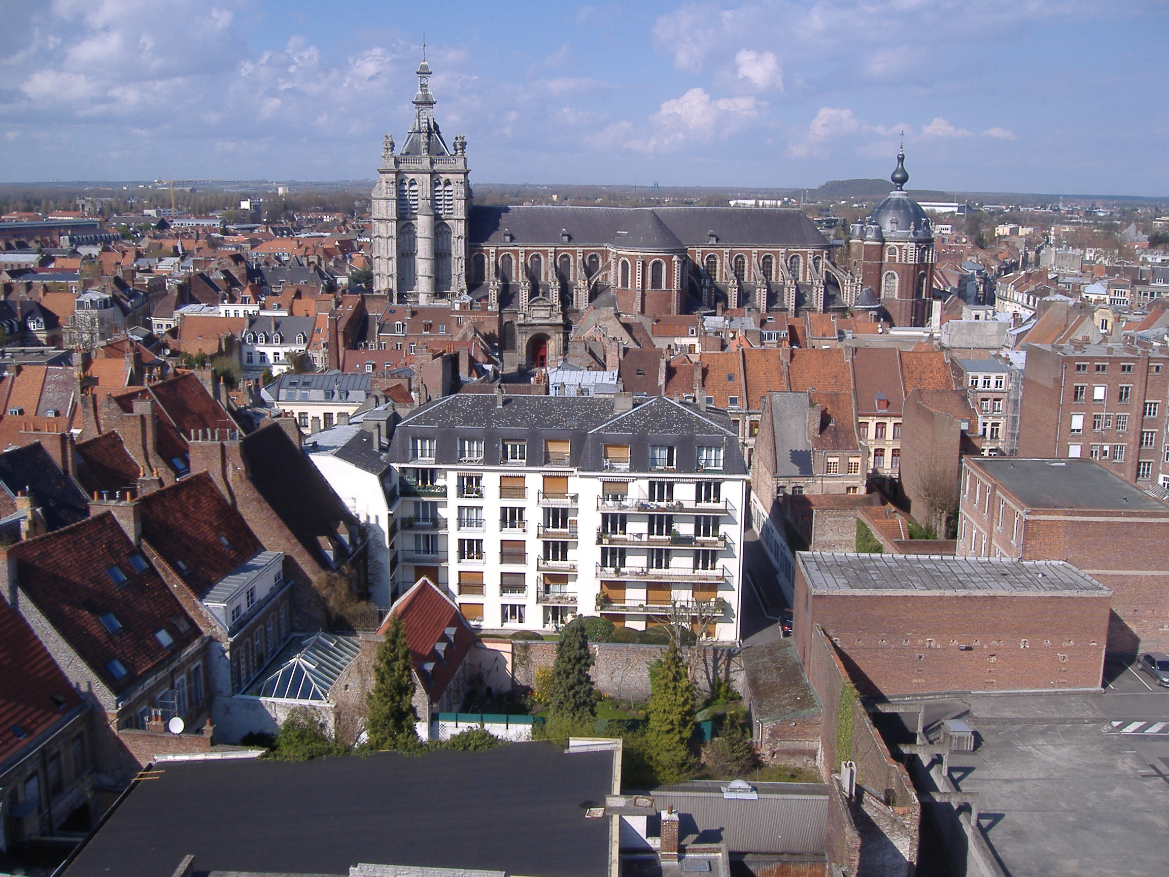 Douai, France.